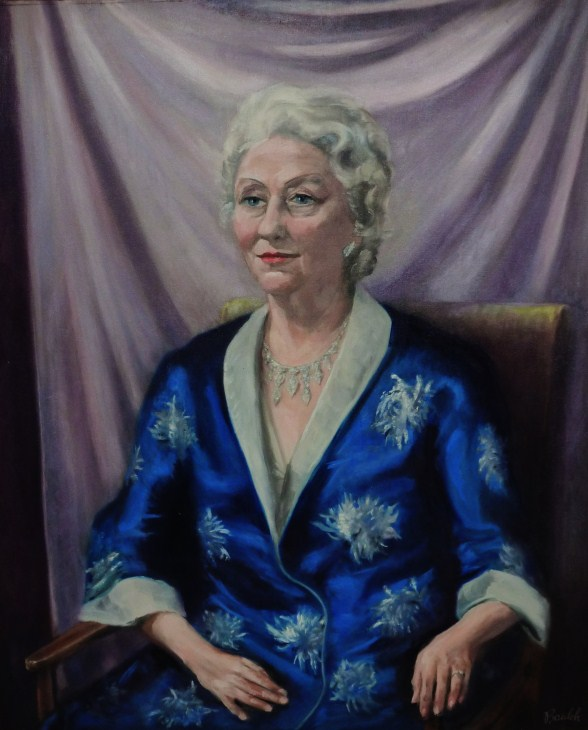 Portrait of Lady Beatrix Waring McCay (Reid) by Douglas Baulch. This is live sitting done in 1967 at East Doncaster, Victoria after Lady Beatrix McCay Reid had retired from the Victorian Magistrates Court.